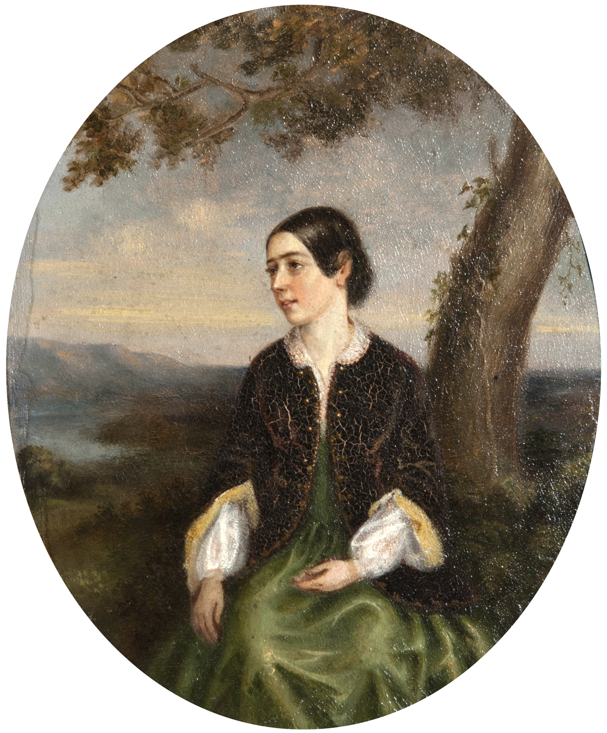 Pauline Jermyn (1816–1866), Lady Trevelyan by British School Date painted: c.1835 Oil on metal, 45.5 x 40.5 cm Collection: National Trust